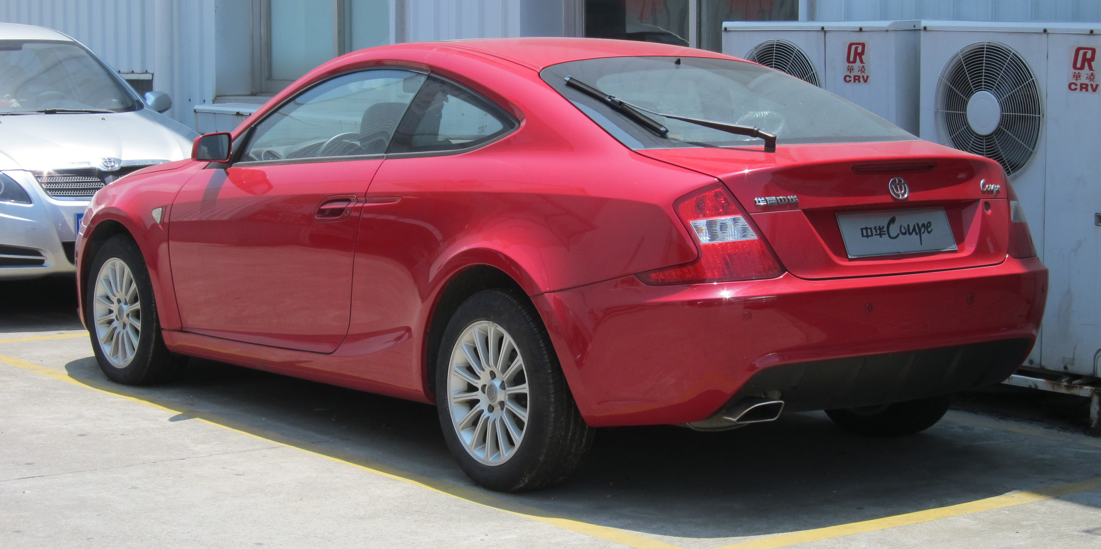 China’s Brilliance Auto 2010 Coupe